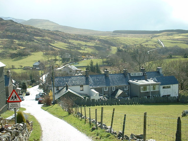 Croesor Village. The village is well known as the starting point for climbing the shapely peak of Cnicht, but there are many other great walks possible from here. There is a National Park Car Park in the village, which is very useful as the local roads are generally single track and have very few parking places.